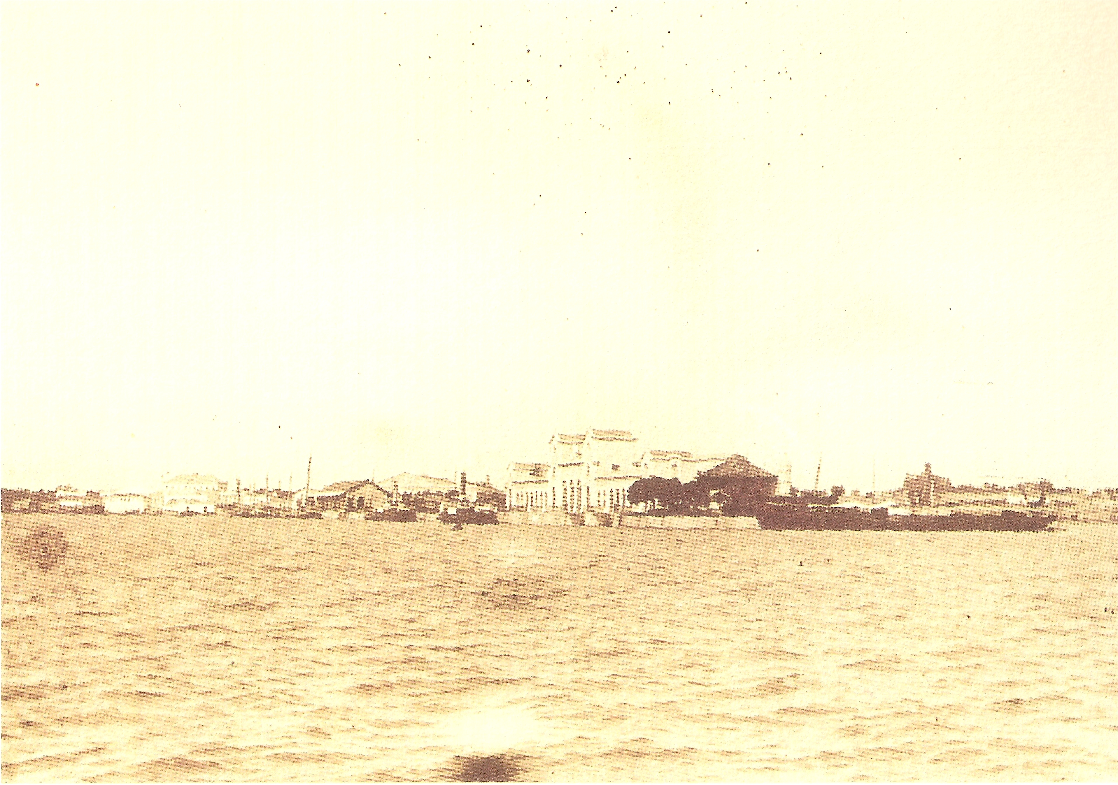 Old Barreiro - Sul e Sueste Railway Station, that was the terminal of the Alentejo Railway, in the southern bank of the Tagus River, in Portugal. This photograph was taken at end of the 19th century.